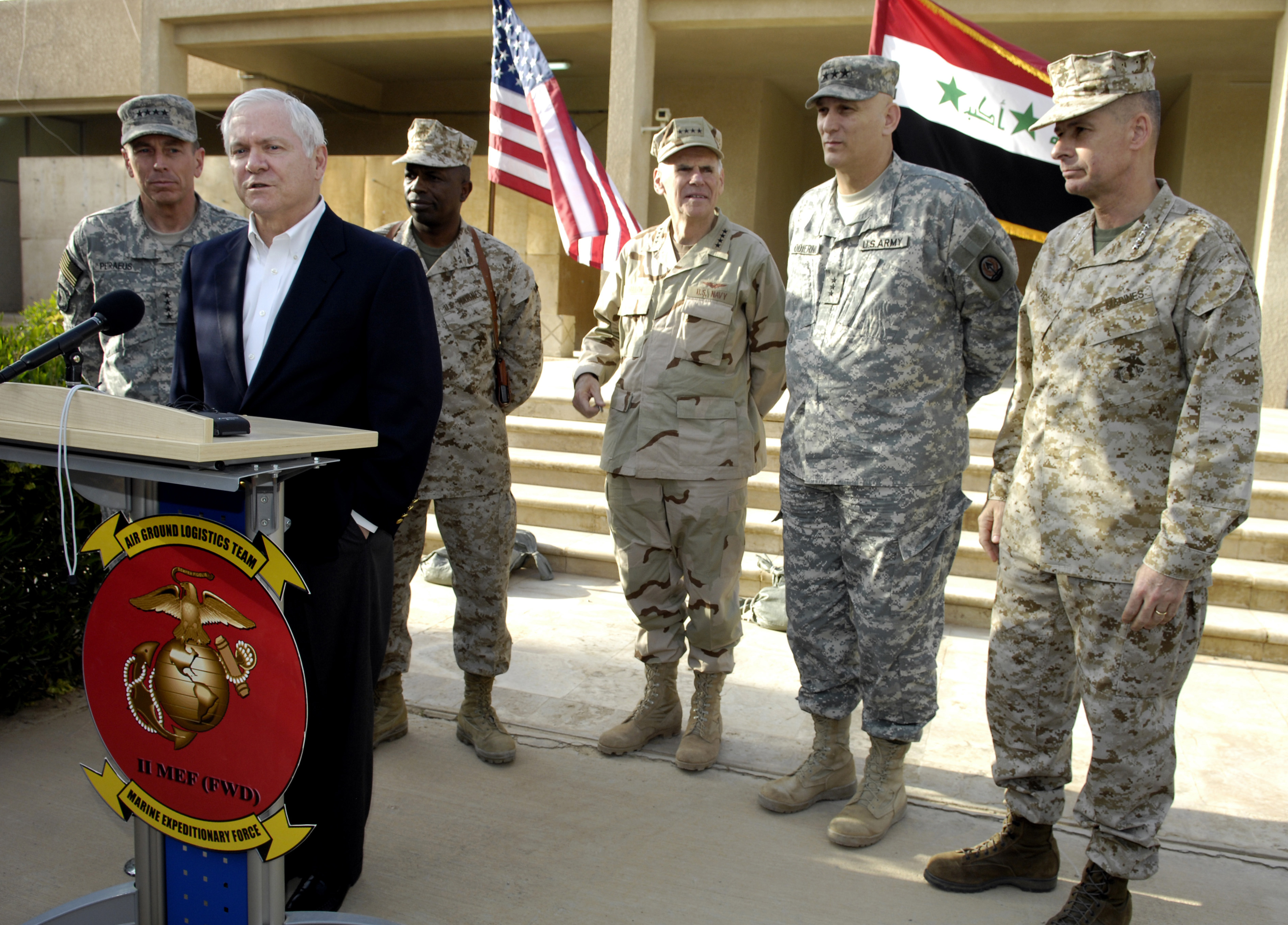 Secretary of Defense Robert M. Gates conducts a press conference at Camp Fallujah, Iraq, April 19, 2007. Gates is accompanied by, from left, Gen. David H. Petraeus, commander of Multi-National Forces - Iraq; Maj. Gen. Walter E. Gaskin, commander of Multi-National Forces - Iraq West; Adm. William J. Fallon, commander of U.S. Central Command; Lt. Gen. Raymond T. Odierno, commander of Multi-National Corps - Iraq; and Chairman of the Joint Chiefs of Staff Marine Gen. Peter Pace.